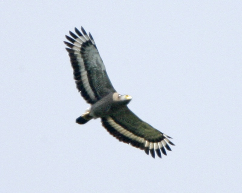 Crested Serpent Eagle Spilornis cheela ssp Spilornis cheela malayensis Panti Forest, Johor, Malaysia 18th. November 2007 Indonesian: Elang ular